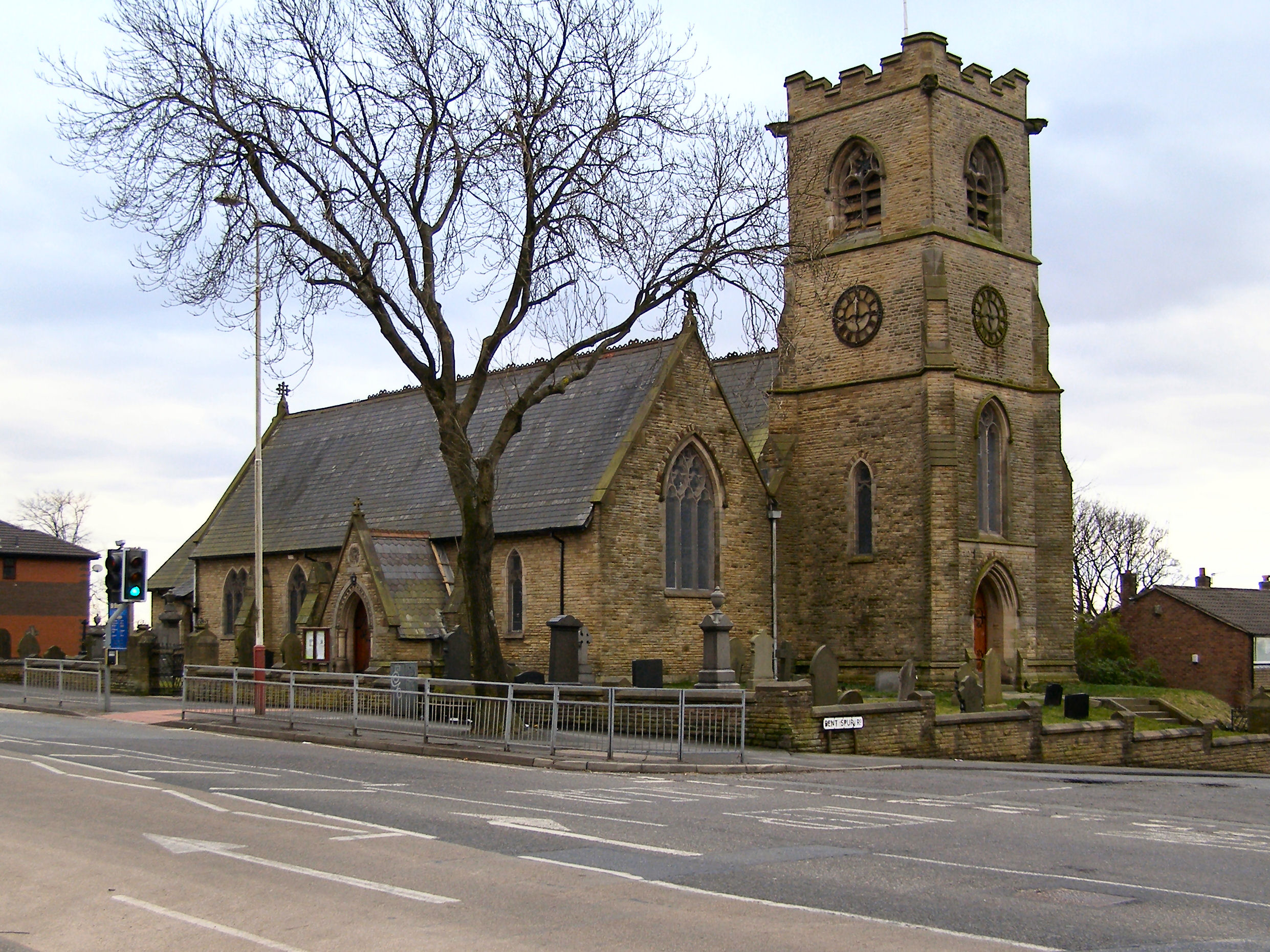 St Stephen's parish church, Manchester Road, Kearsley, Greater Manchester, seen from the northwest